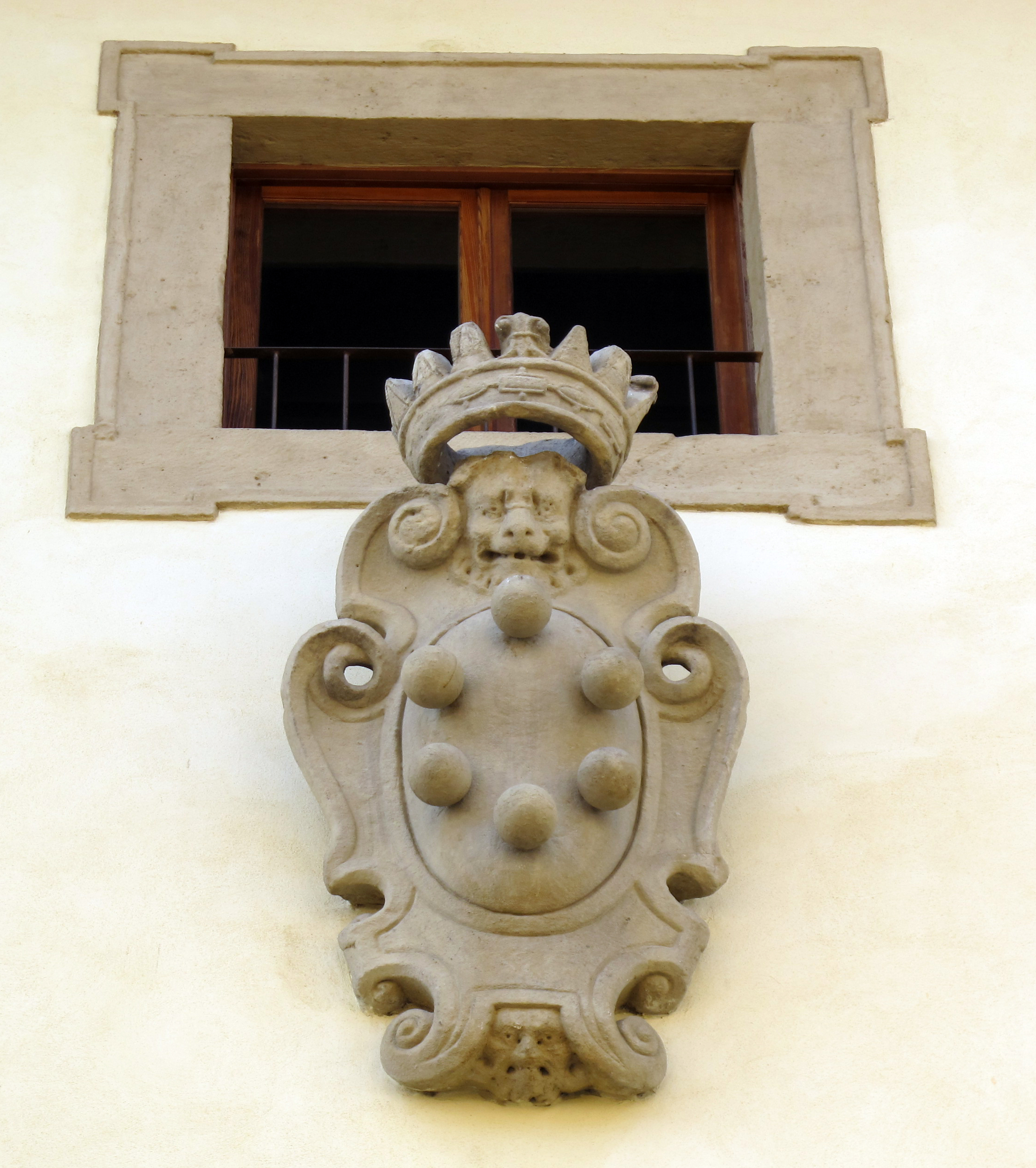 Buildings in Colle di Val d'Elsa